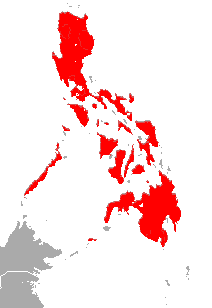 Yellow-faced Horseshoe Bat (Rhinolophus virgo) range